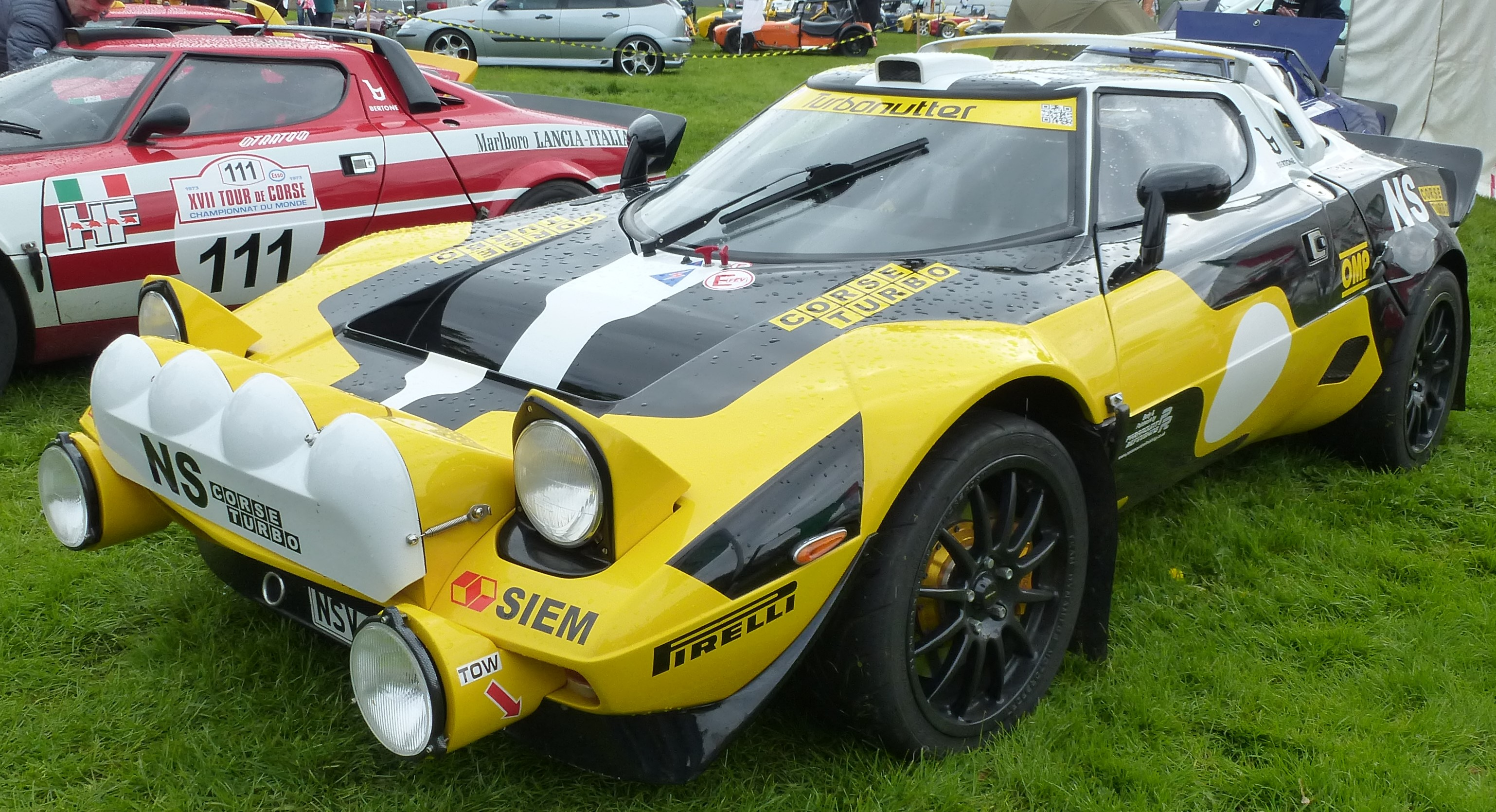 Carson Corse